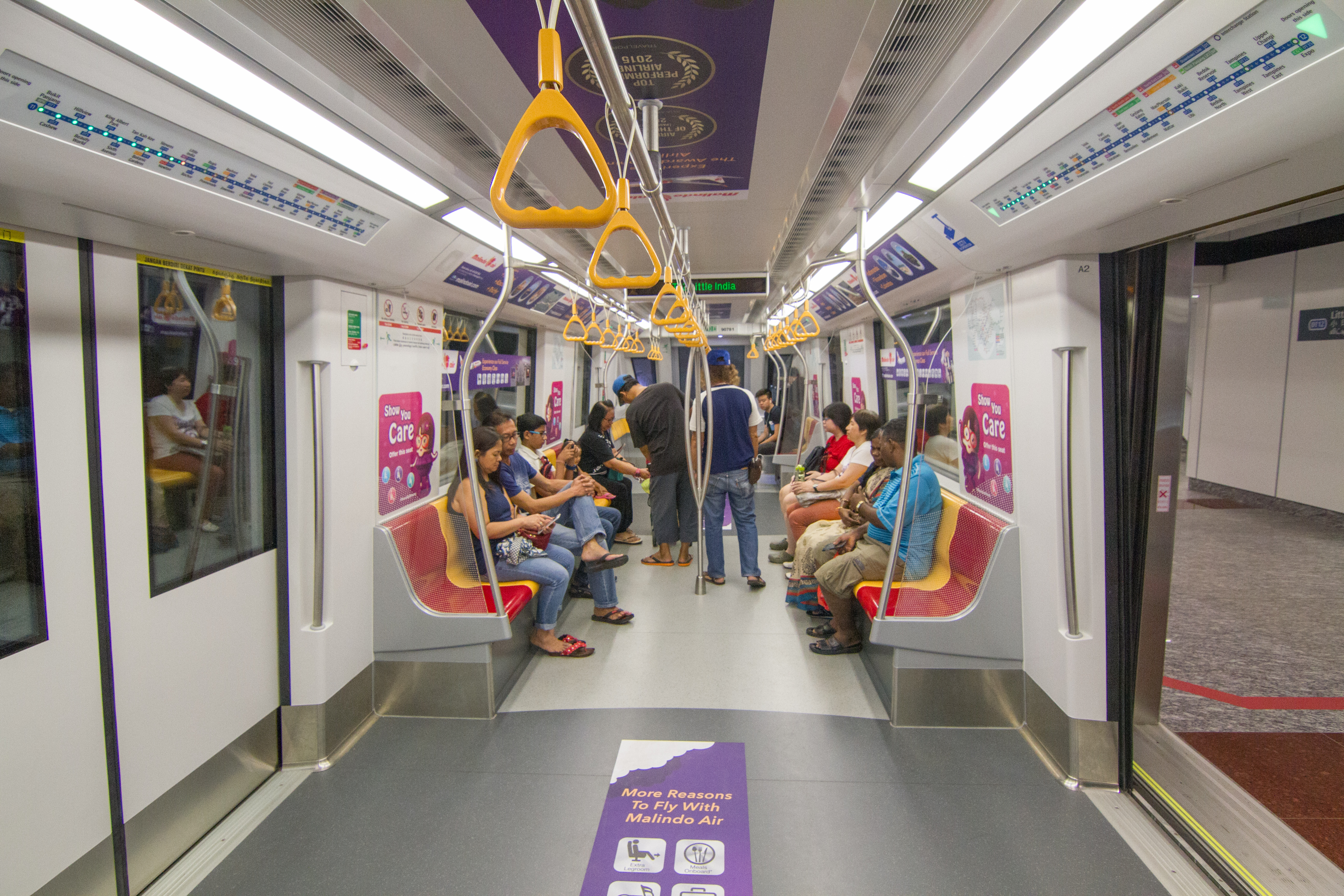 Interior of MRT Train, Singapore